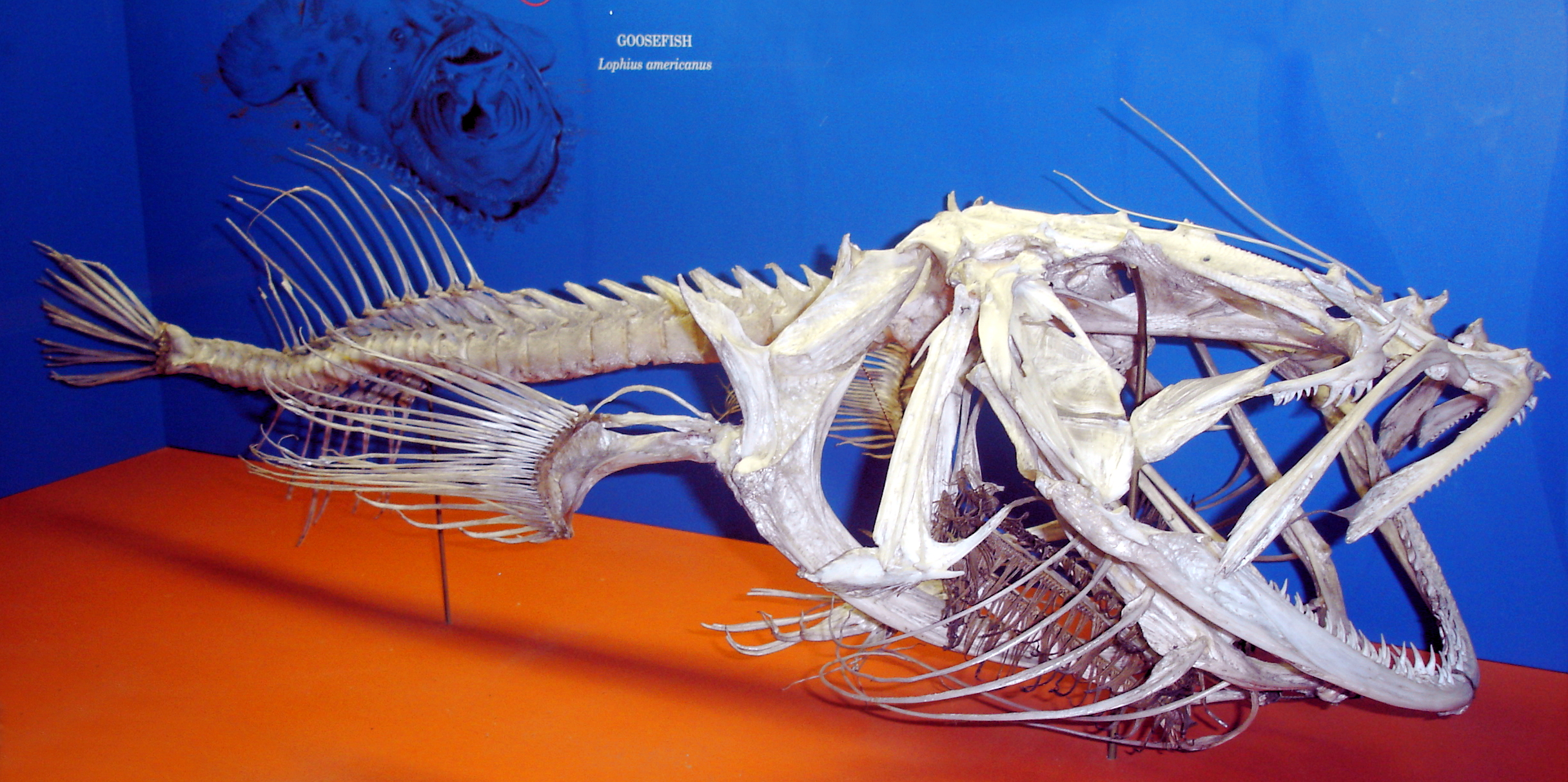 A skeleton of a goosefish, the American angler (Lophius americanus), on display at the Smithsonian Museum of Natural History.